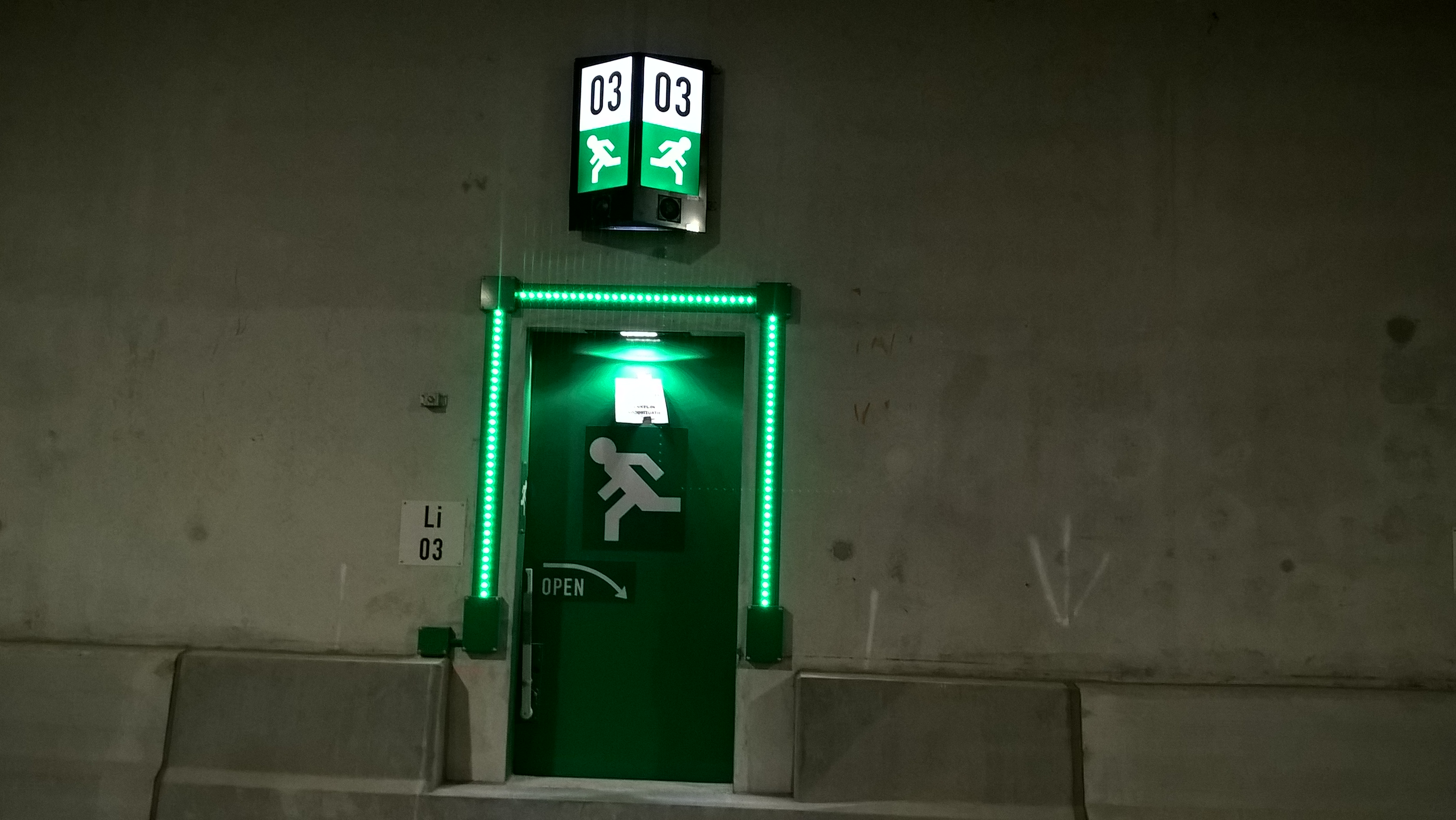 Kethel tunnel, green light around emergency exit